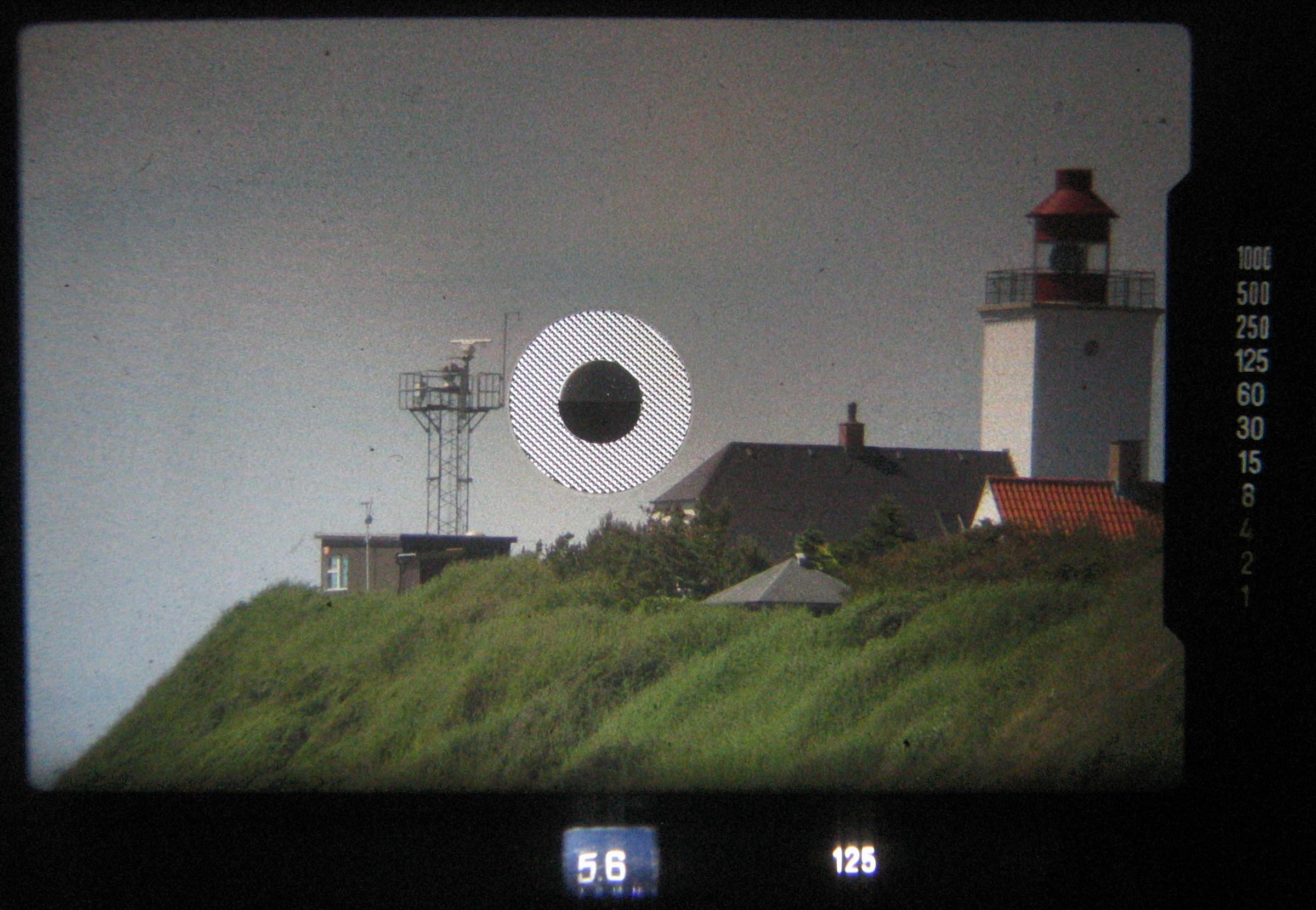 Viewfinder of SLR Camera with 300 mm tele lens and 2x teleconverter. (Røsnæs Fyr, Denmark)